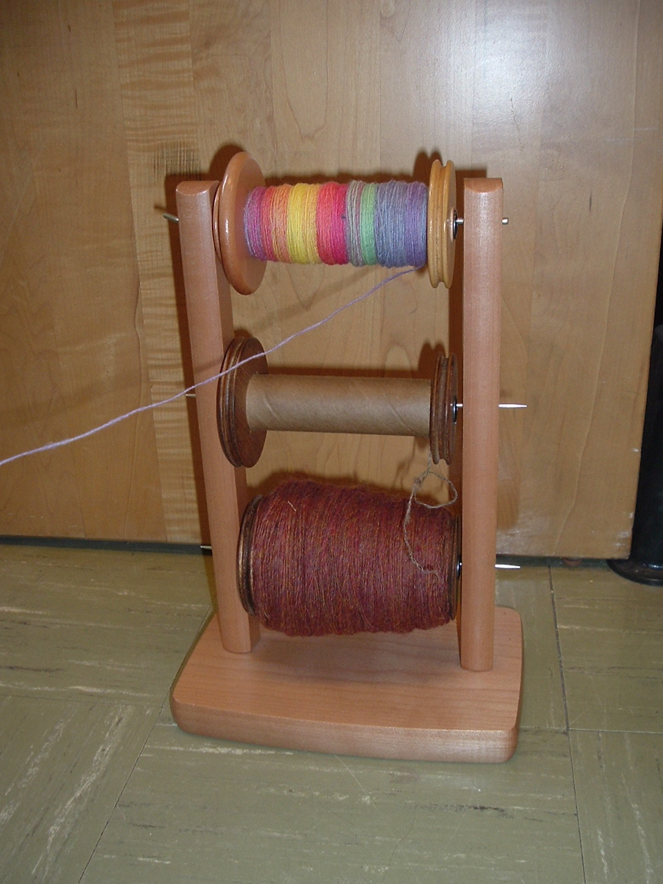 A picture of a lazy kate made by Ashford.